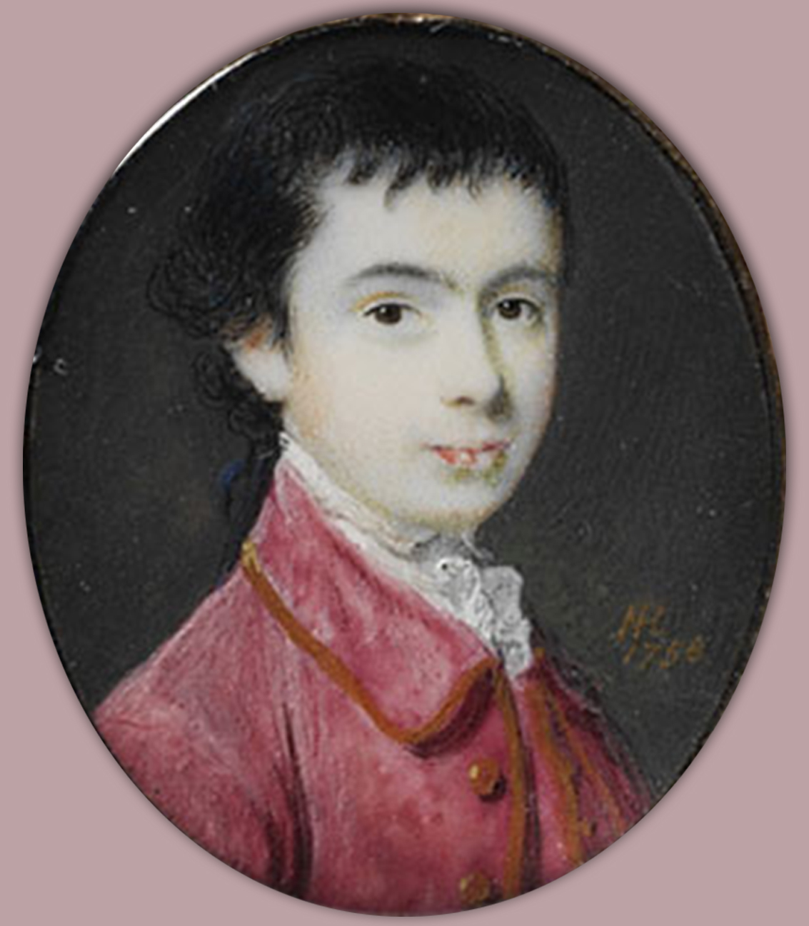 Portrait of Harry Earl Aged 15, Watercolour on ivory, Signed lower right 'NH' in monogram, and dated '1758'. Inscription scratched on metal locket in Latin, 'Harry Earle Junior aged 15' V&A Museum no. P.4-1958, Bequeathed by Mr Stuart H.J. Johnson